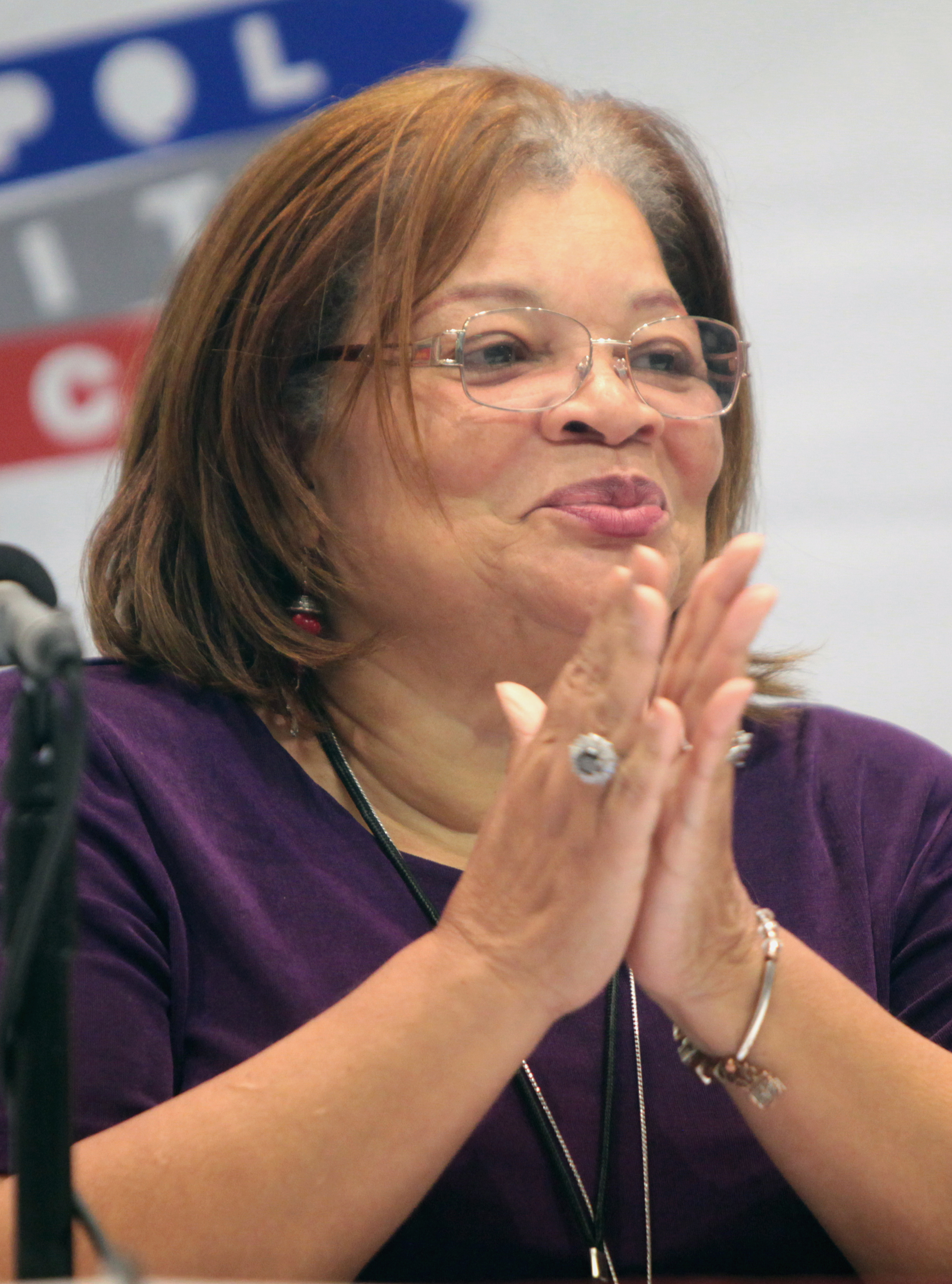 Alveda King speaking at Politicon in Pasadena, California.